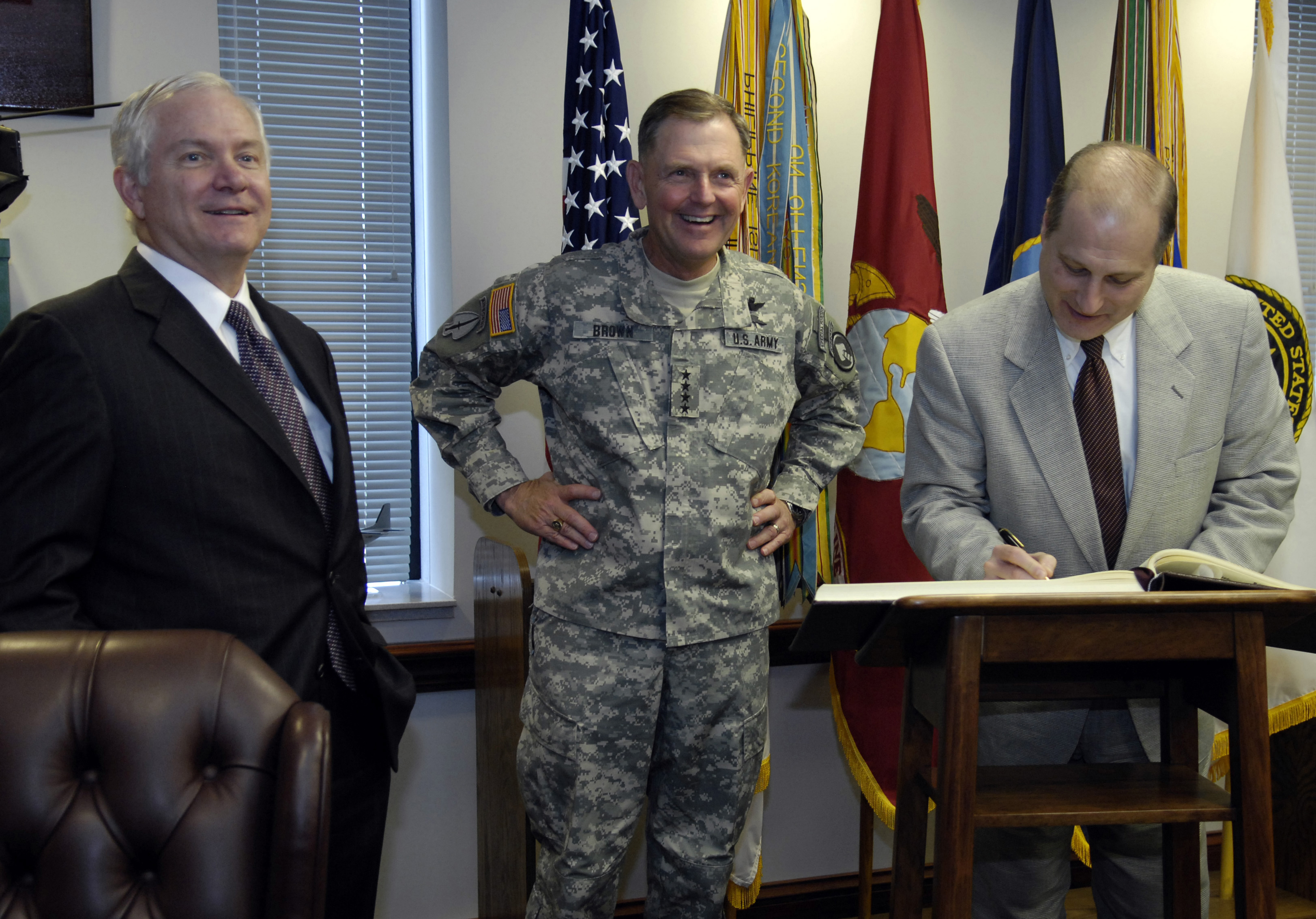 U.S. Army Gen. Bryan D. Brown, center, the commander of U.S. Special Operations Command, shares a laugh with Secretary of Defense Robert M. Gates, left, as Under Secretary of Defense for Policy Eric Edelman signs the geust book at the Special Operations Com mand headquarters in Tampa, Fla., Jan. 5, 2007. Gates is in the area meeting with leaders of U.S. Southern Command, Central Command and Special Operations Command.